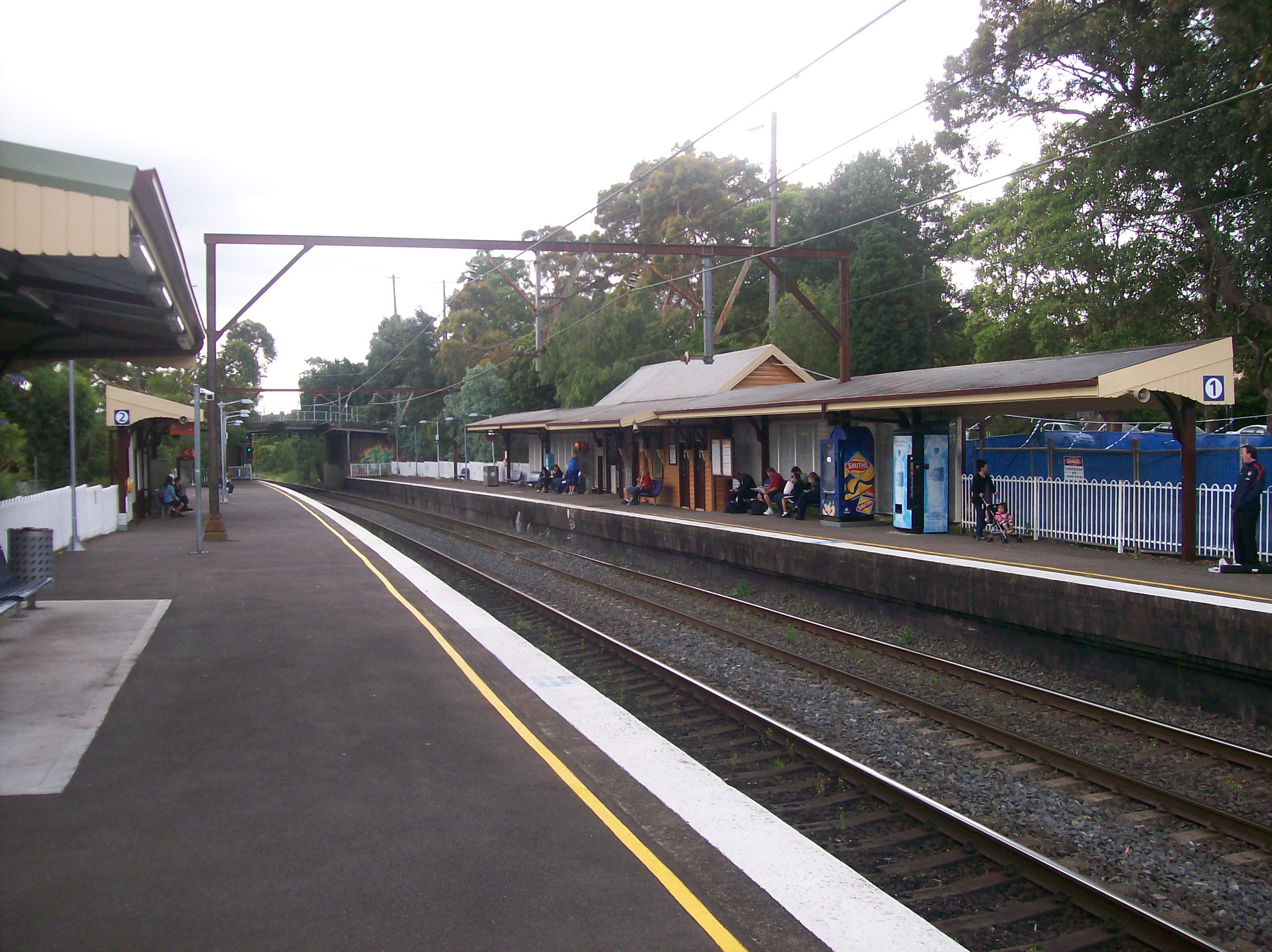 Asquith railway station